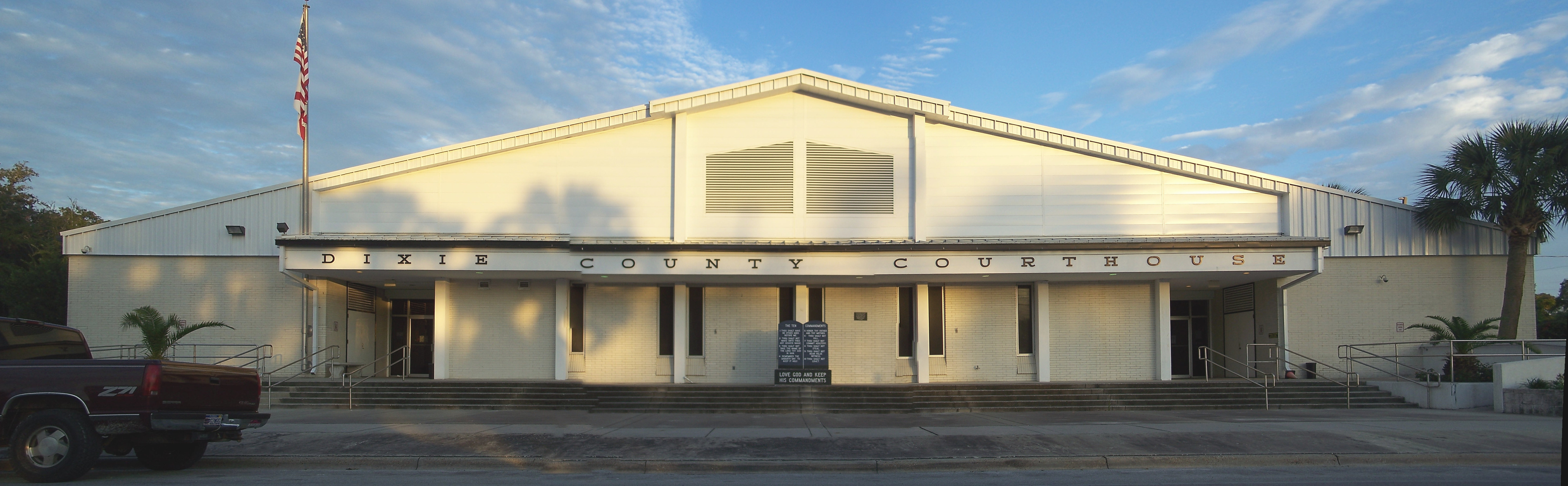 Cross City, Florida: Dixie County Courthouse.